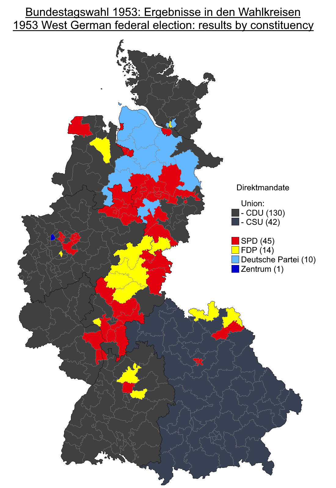 Results of the (West) German federal elections of 1953, showing direct seats won by party